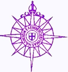 The Compass Rose is a symbol identifying those who belong to the worldwide Anglican Communion. This emblem was originally designed by the late Canon Edward West of the Cathedral of St. John the Divine in New York. The Compass Rose is set in the nave of the Cathedral Church of Christ in Canterbury, England, and it was dedicated by Archbishop of Canterbury Robert Runcie at the final Eucharist of the Lambeth Conference in 1988. He also dedicated a similar Compass Rose in the Cathedral Church of Saint Peter and Saint Paul (National Cathedral) in Washington, D.C. in 1990. The center of the Compass Rose contains the cross of St. George and is surrounded by the inscription in Greek, "The truth shall set you free." The points of a compass reflect the spread of Anglican Christianity throughout the world. The mitre at the top indicates the role of Episcopacy and Anglican Order that is at the heart of the traditions of the Churches of the Communion.